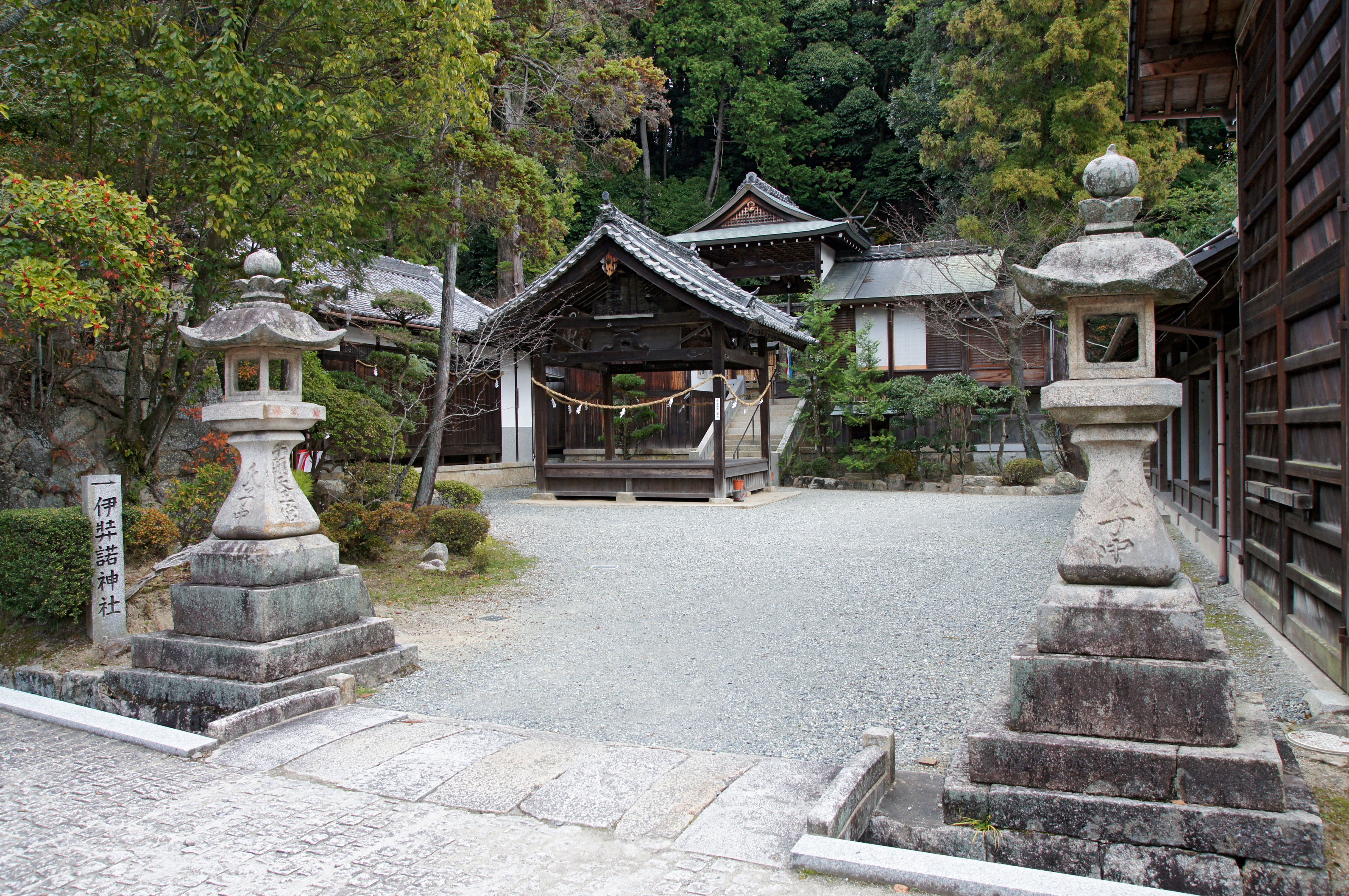 Izanagi-jinja in Chōkyū-ji, Ikoma, Nara prefecture, Japan